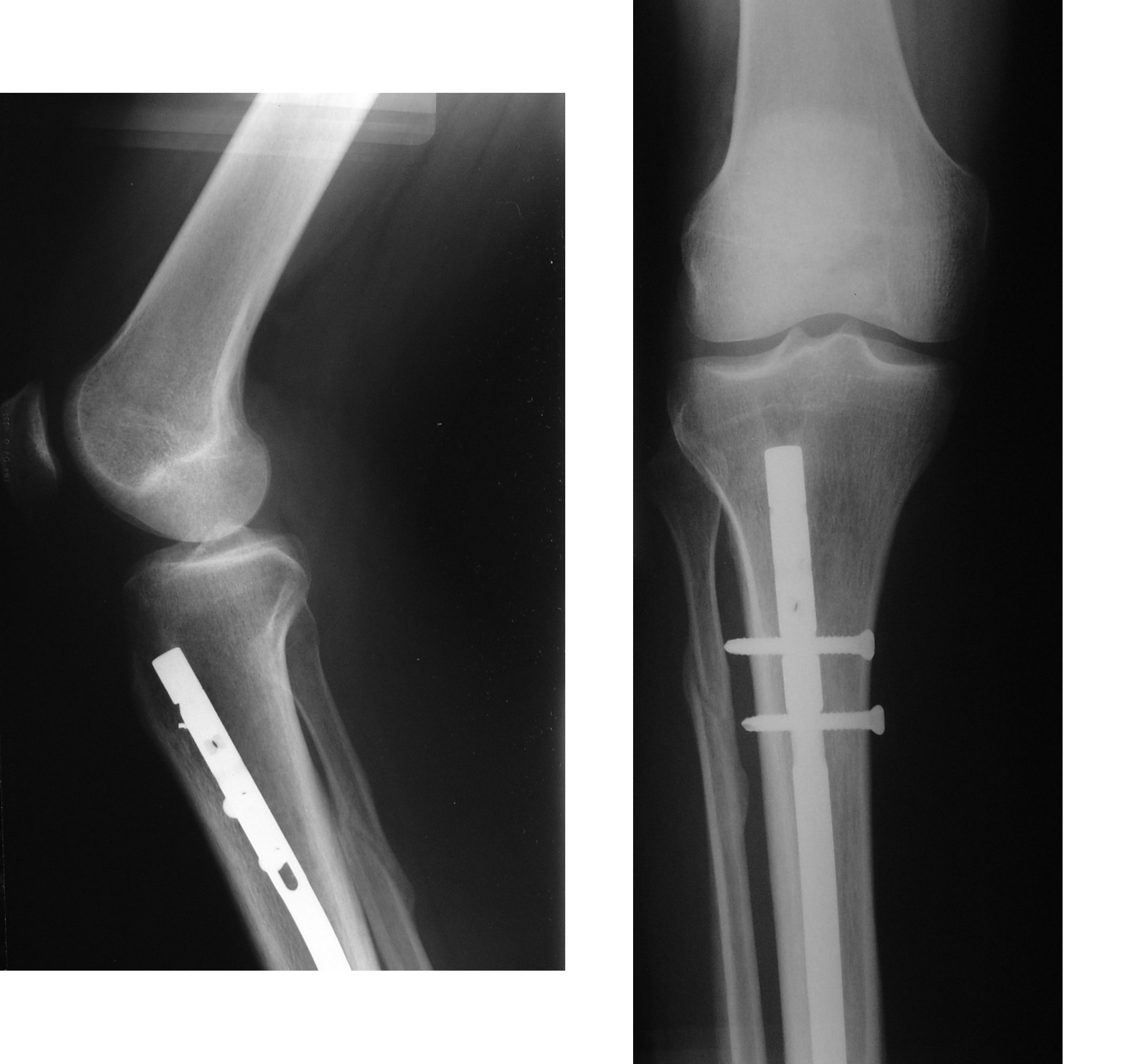 own knee with a titan nail.